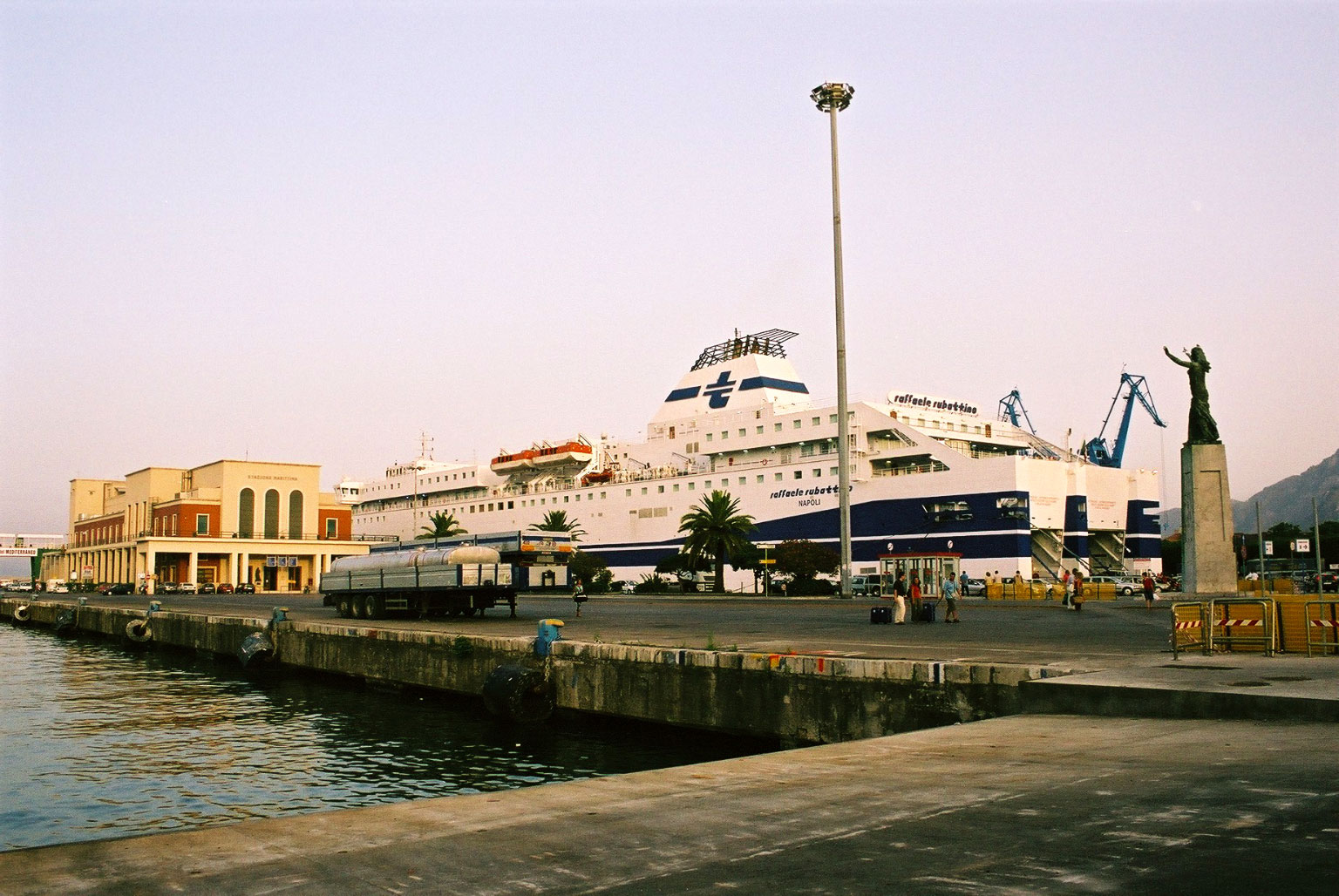 Harbour of Palermo Quayside for the ferry